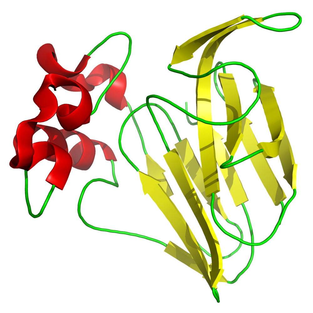 Cartoon diagram of thaumatin I. Created using PyMOL ( and GIMP.